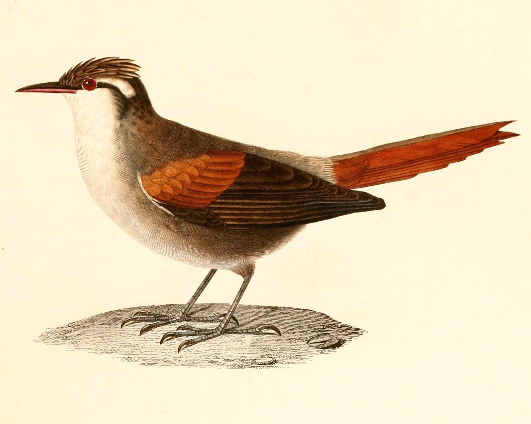 « Synallaxis striaticeps » = Cranioleuca pyrrhophia (Stripe-crowned Spinetail)